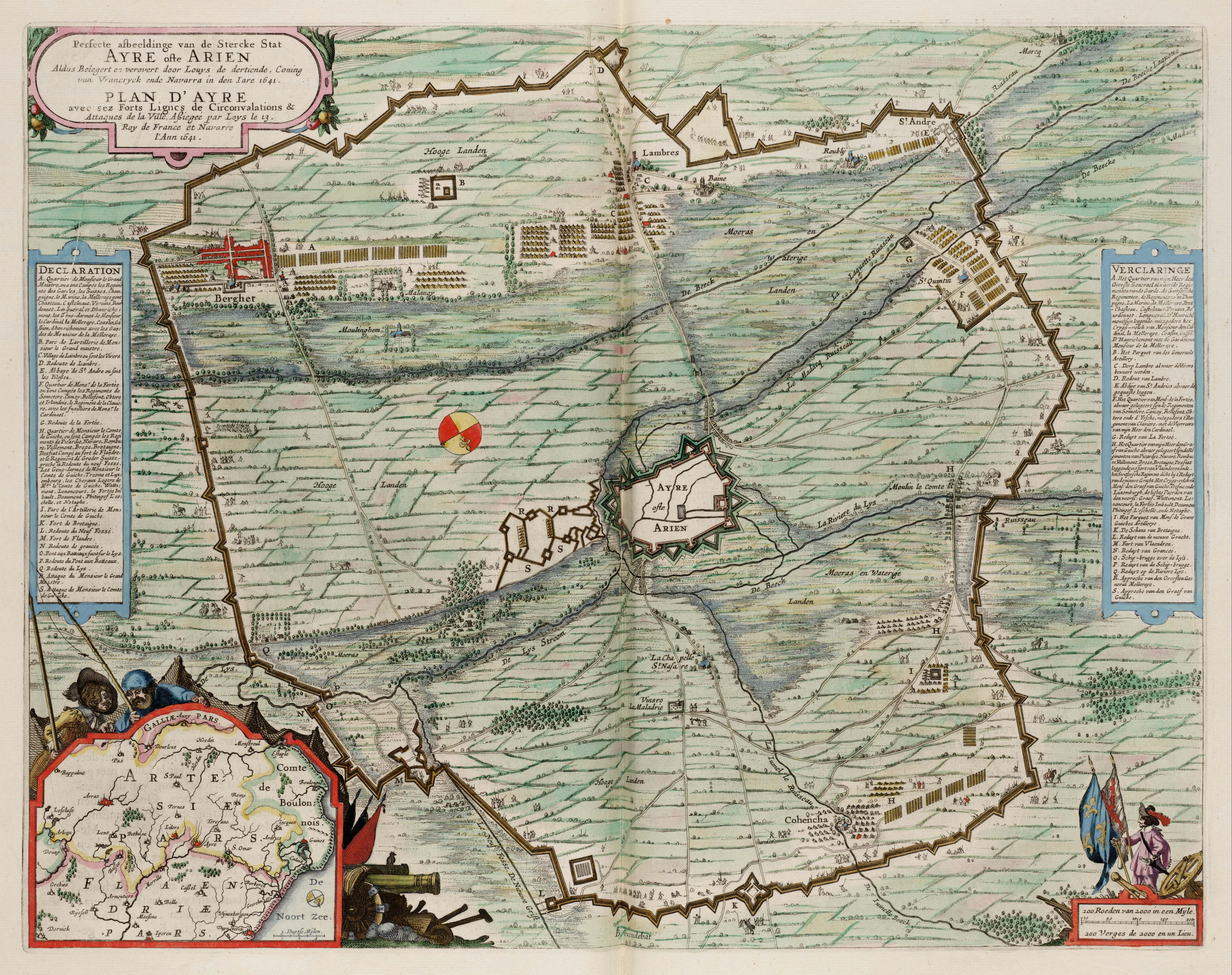 Siege and conquest of Aire by Louis XIII in 1641